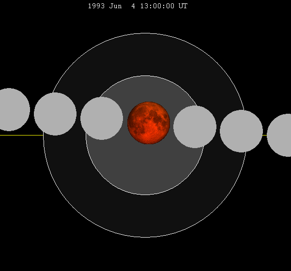 June 1993 lunar eclipse chart of moon's total lunar eclipse path through the earth's shadow. thumb